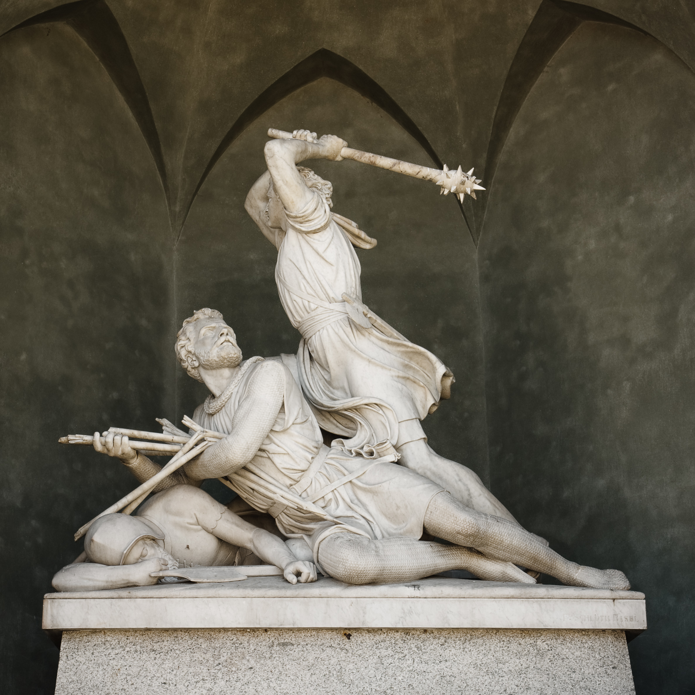 Sculpture of Arnold von Winkelried (lying and dying) made by Ferdinand Schlöth in Stans, Switzerland